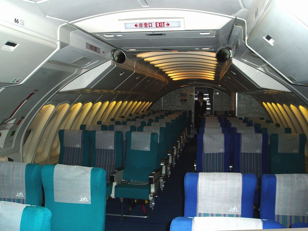 Inside cabin B747-146B/SUD Upper Deck